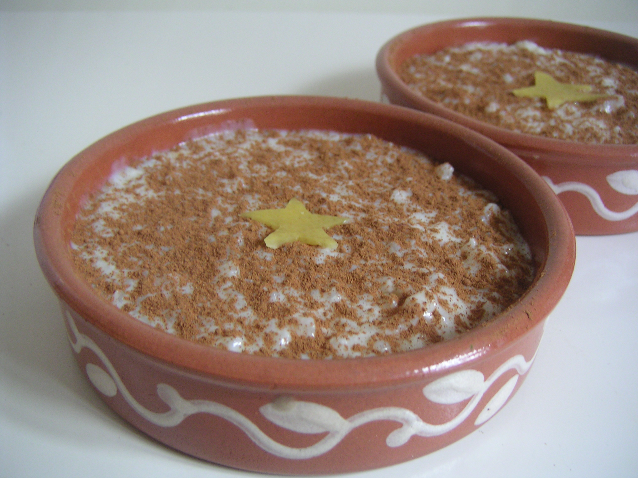 Desert made with rond riz, milk and sugar, flavoured with lemon peel and cinamon.